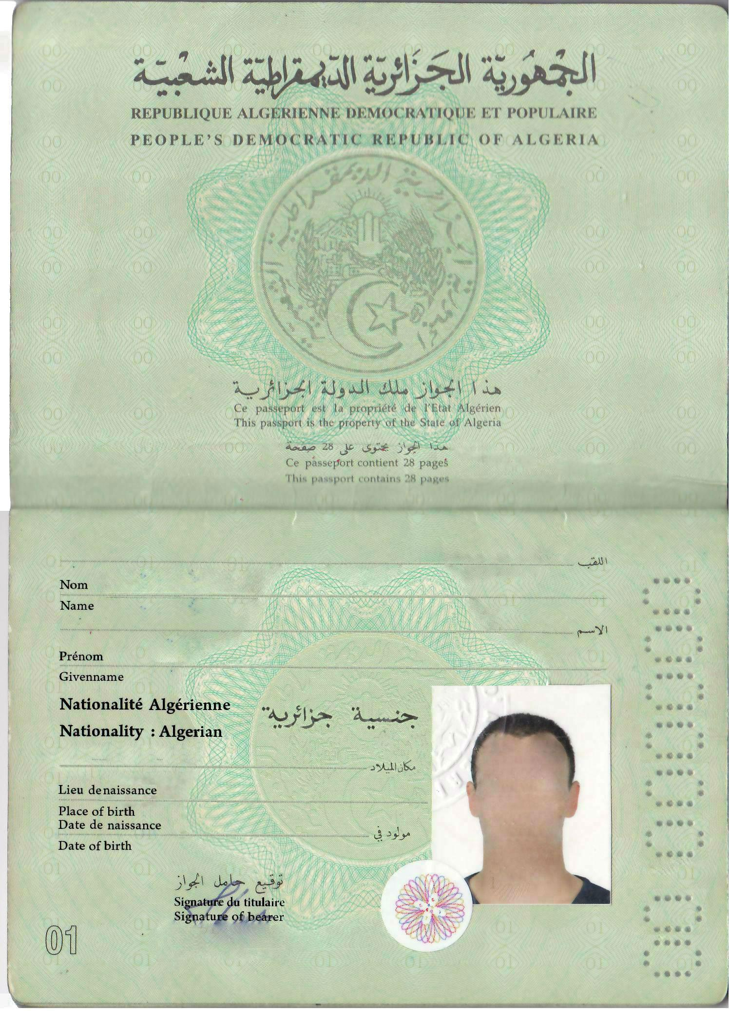 First page of the algerian passport